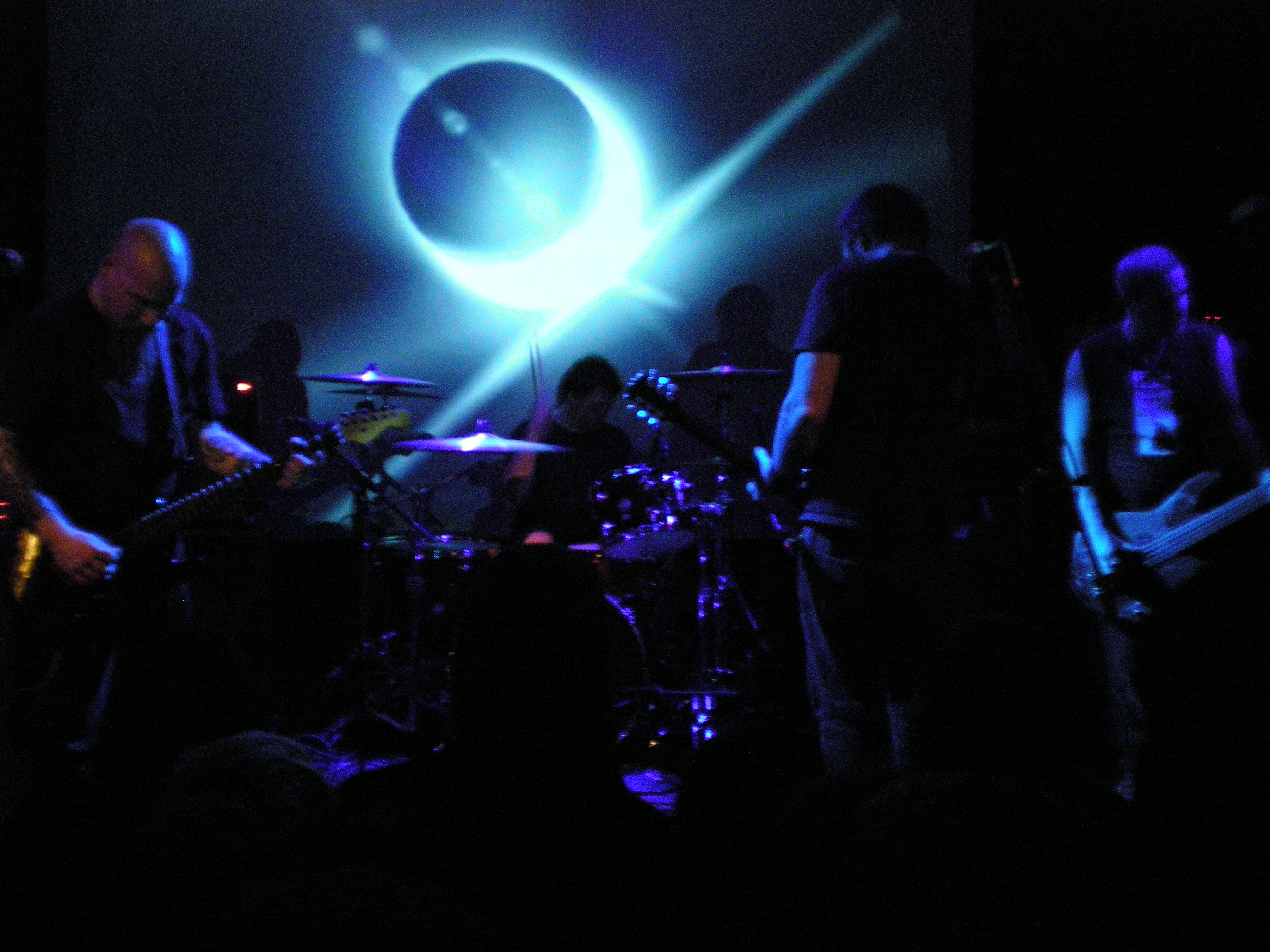 The band Neurosis playing at Neumo's in Seattle, Washington.